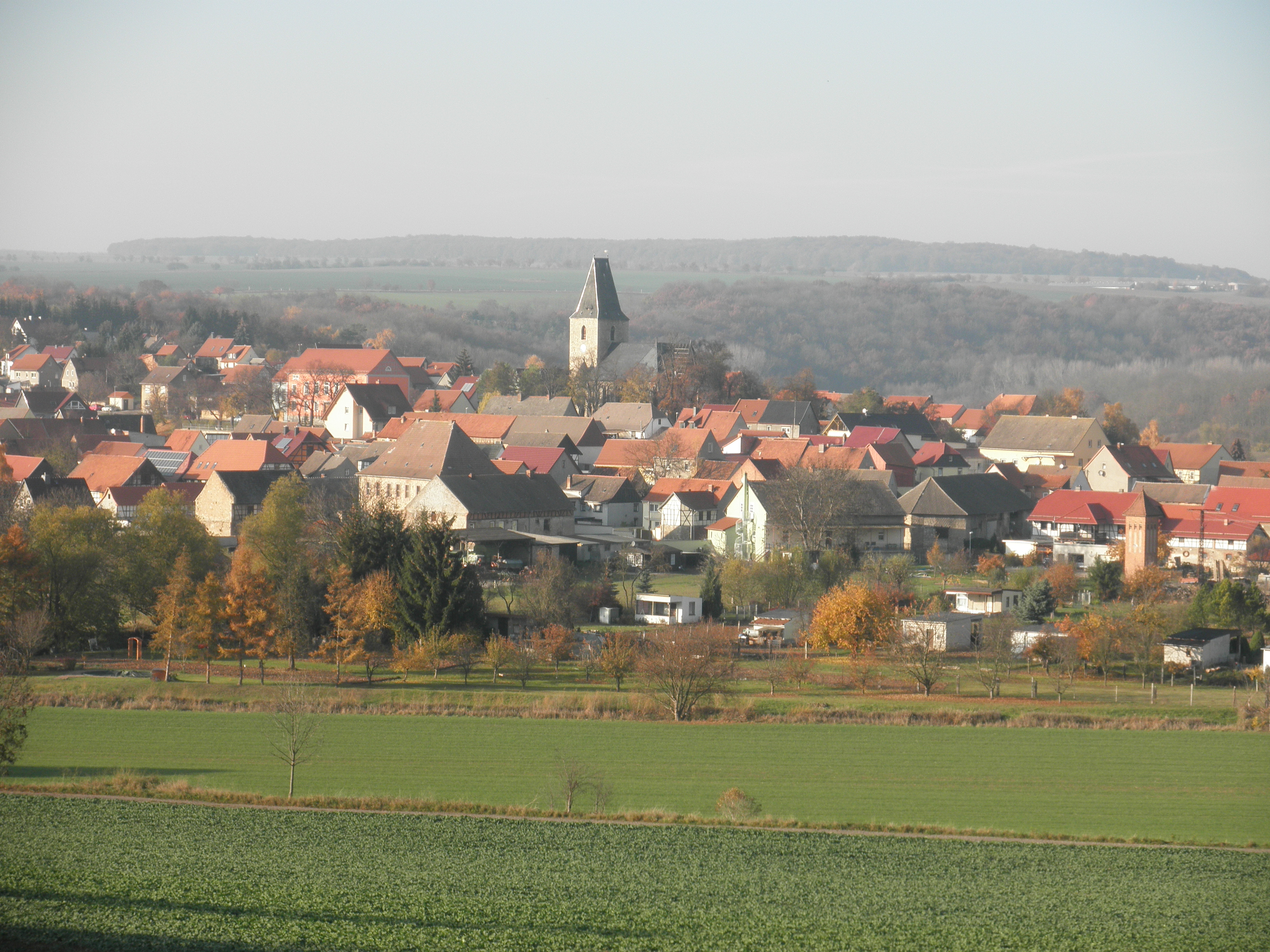 View at Bilzingsleben in Thuringia